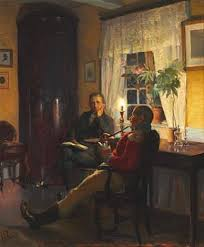 Indkvartering hos J. P. Mynster i Spjellerup præstegård